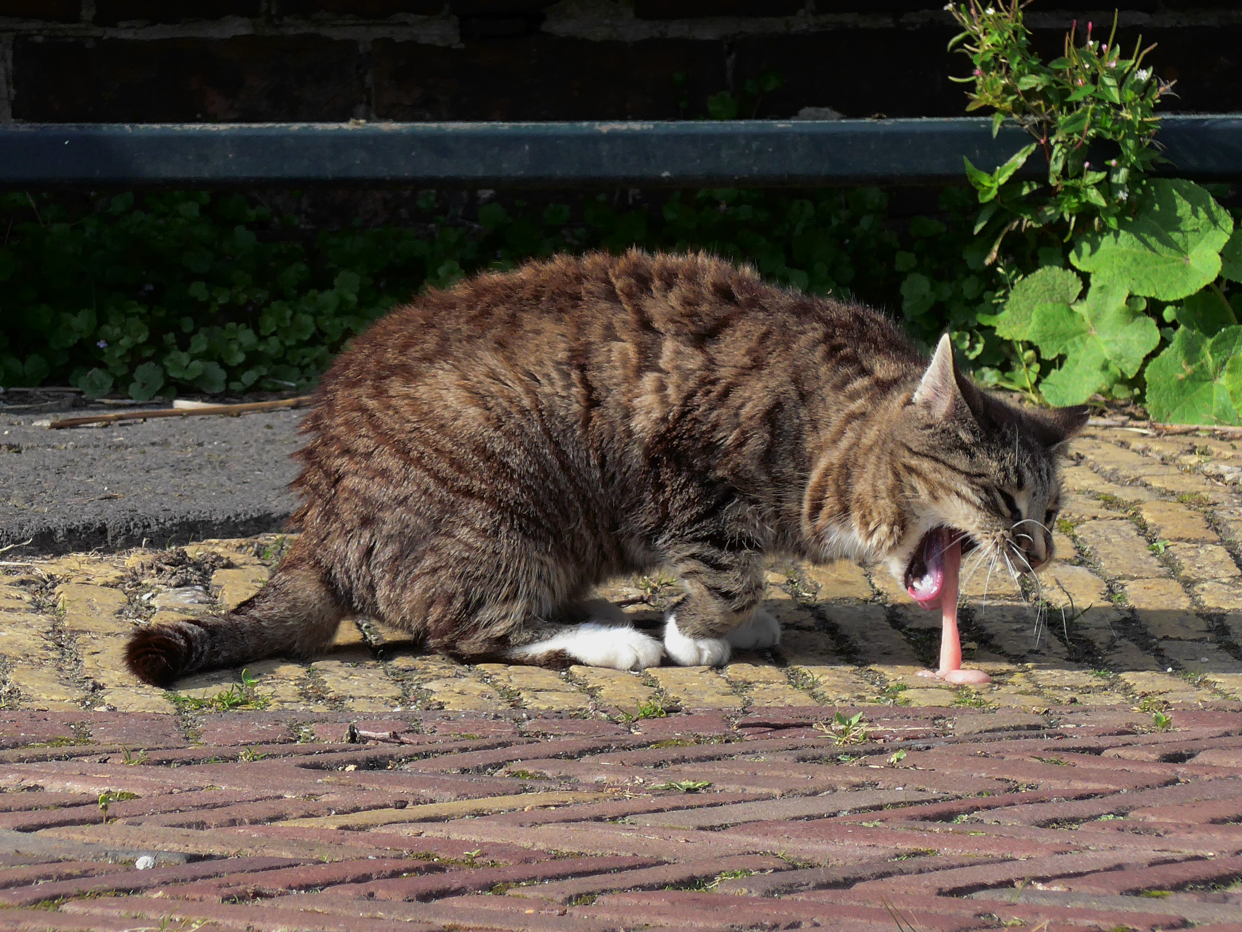 Vomiting female cat, living at Woldzigt, a windmill in the Dutch village of Roderwolde, Drenthe.